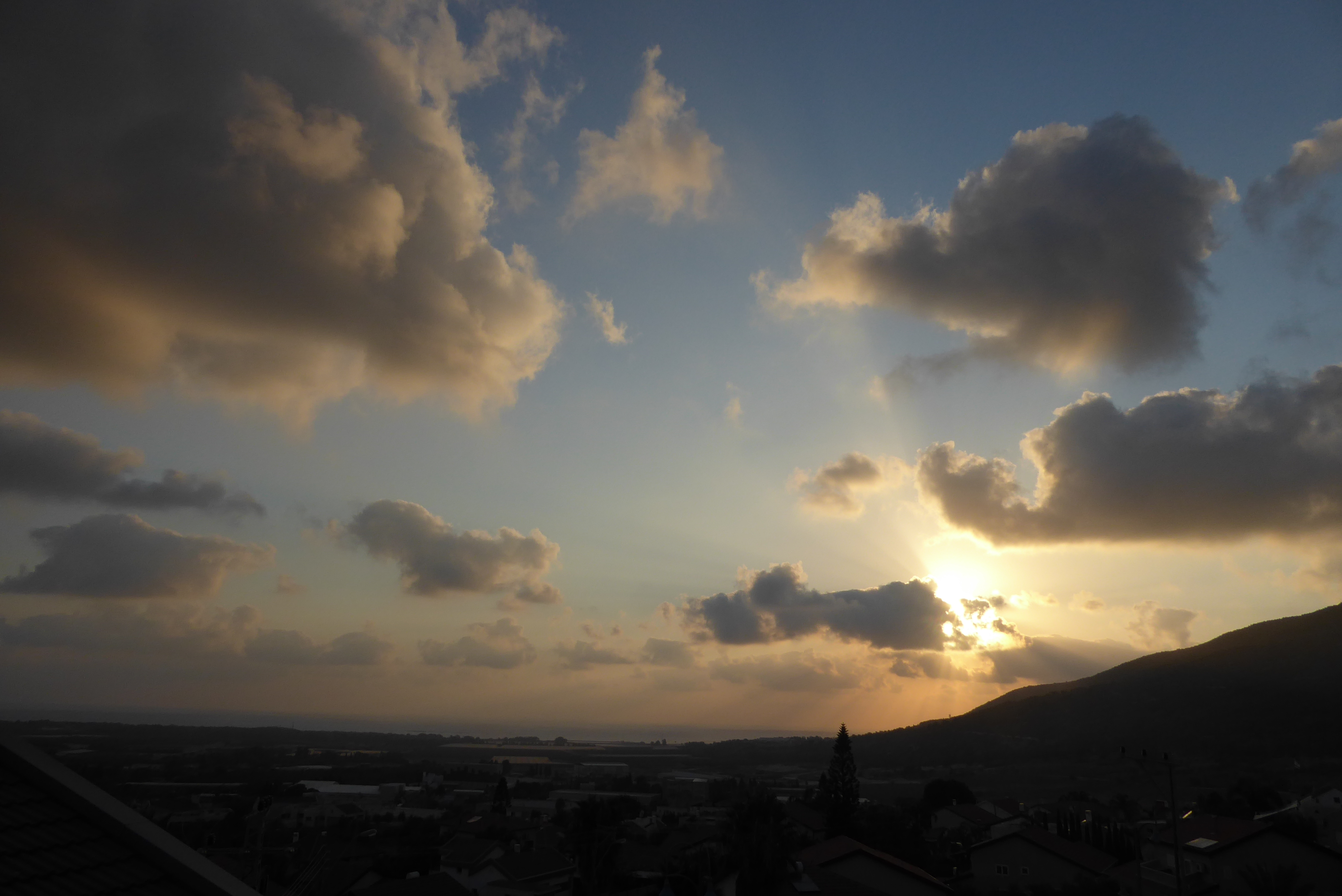 Shlomi (Hebrew: שְׁלוֹמִי) is a town in the Northern District of Israel.